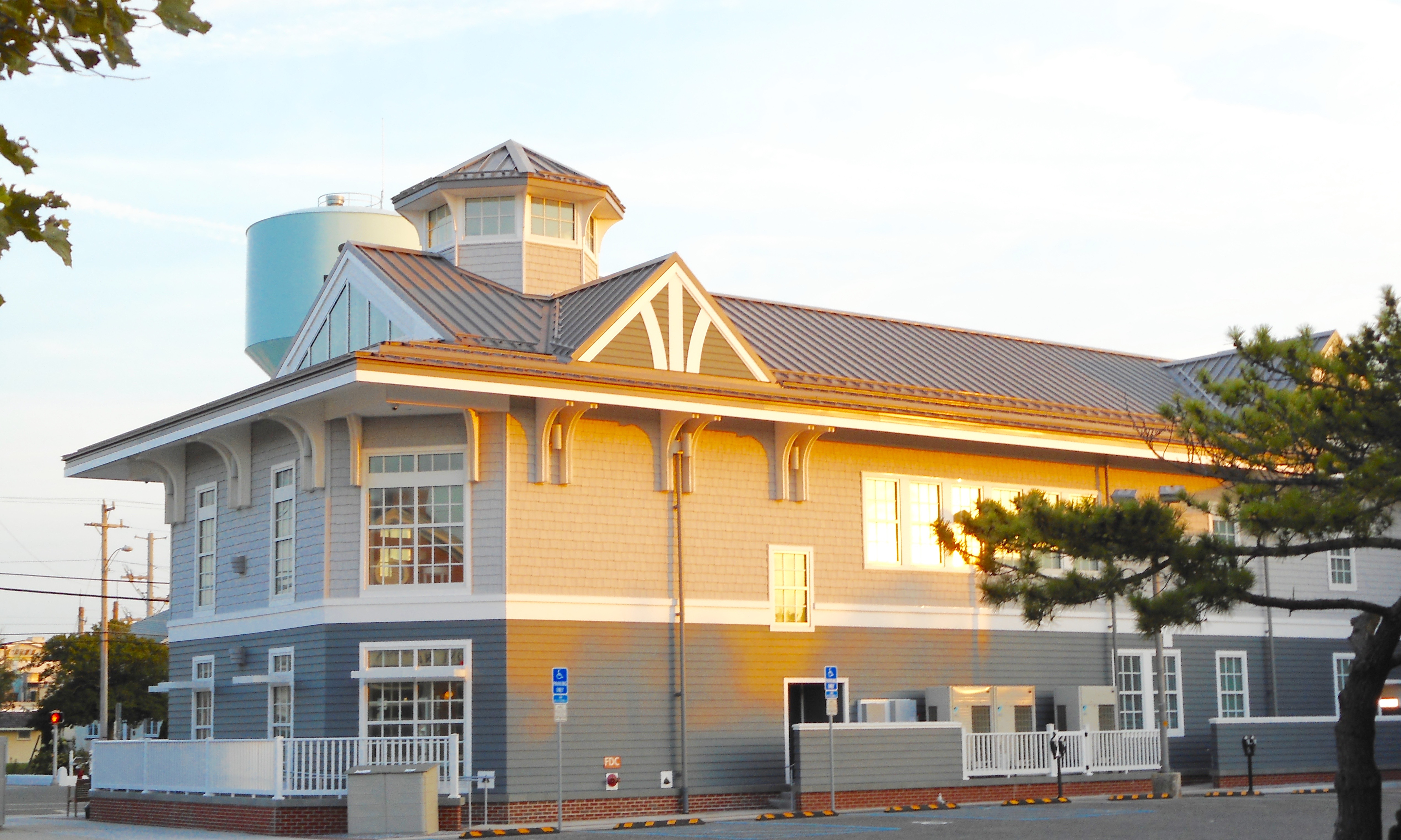 Library in Stone Harbor, New Jersey from the southeast